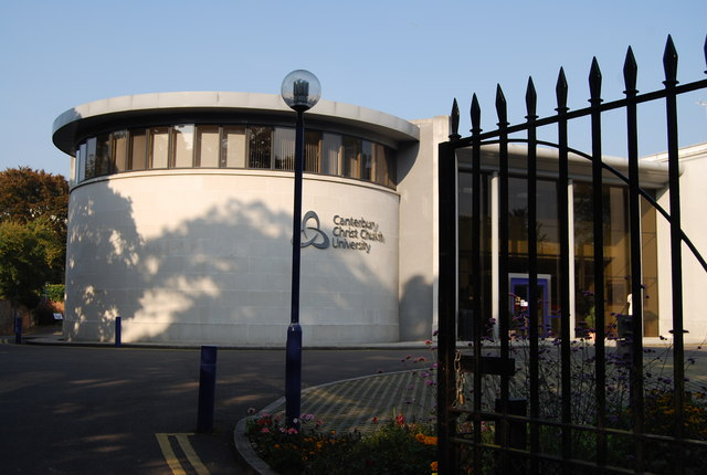 Canterbury Christ Church University, Old Sessions House entrance.